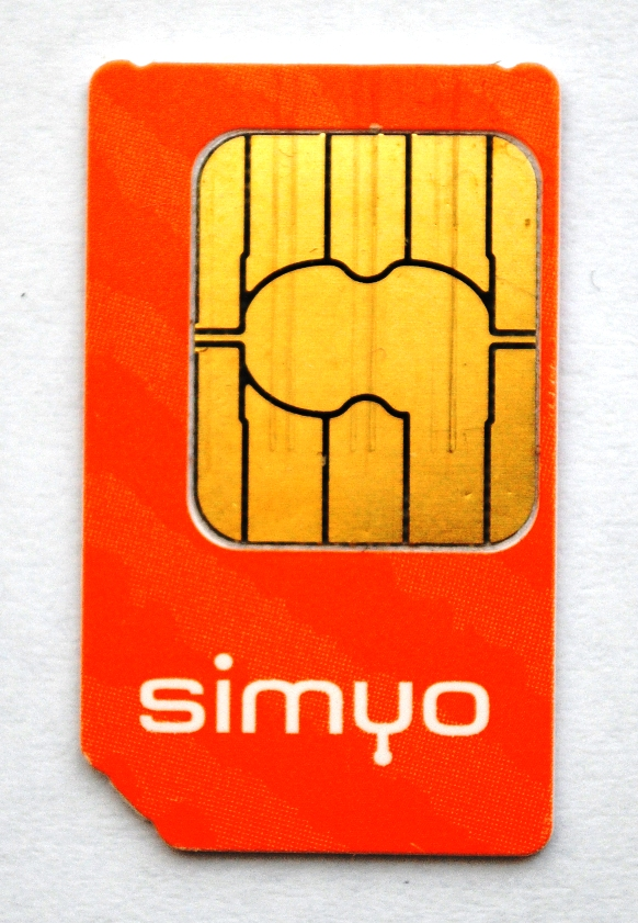 SIM Simyo